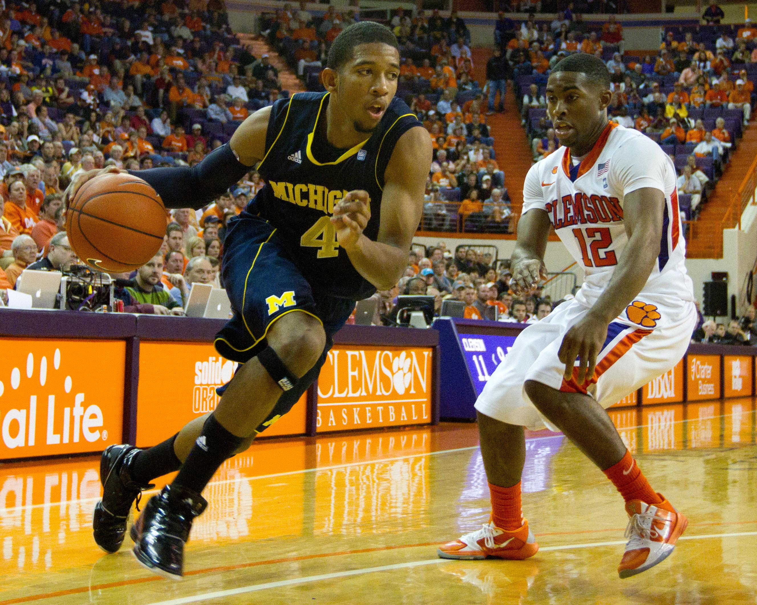 Darius Morris drives on Cory Stanton